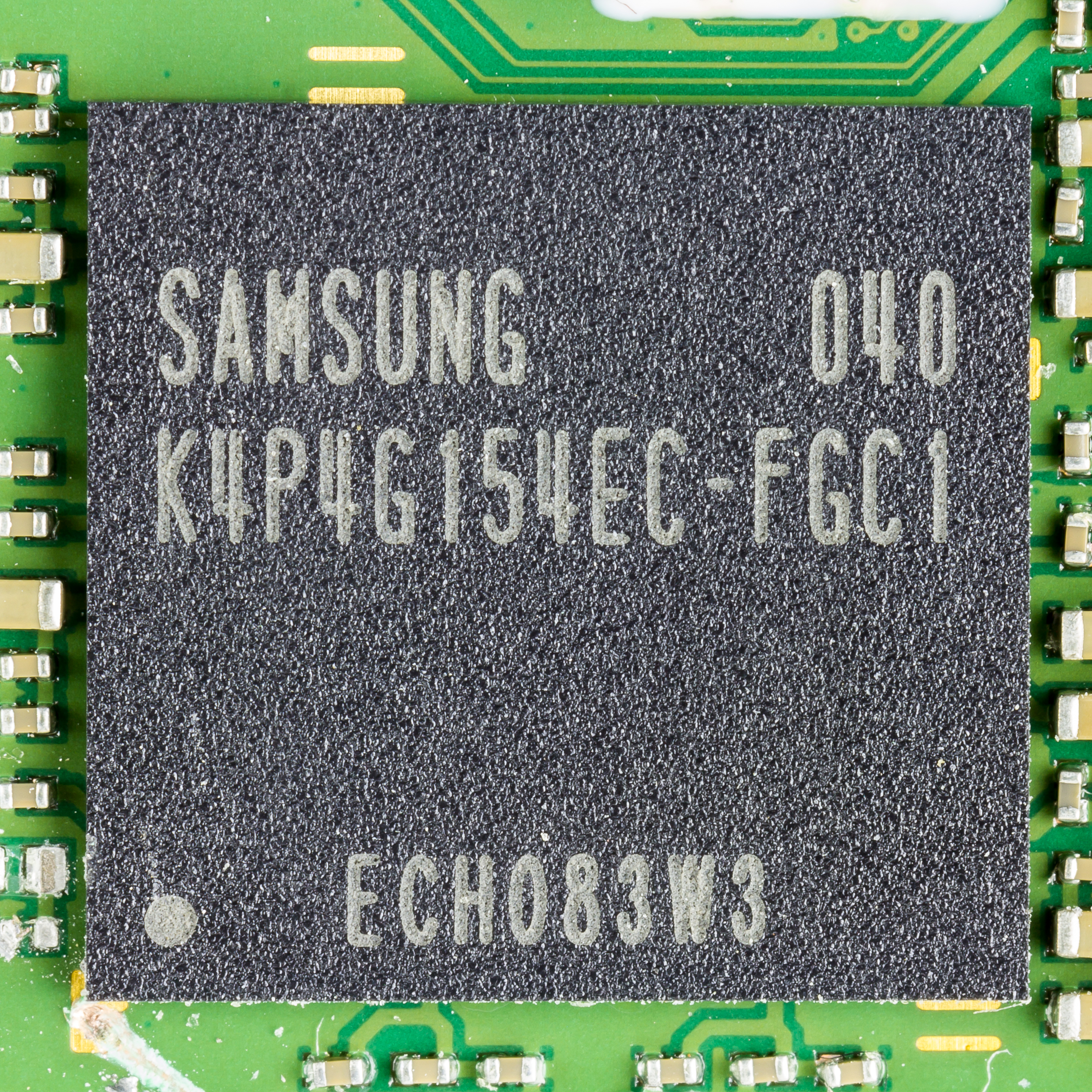 Motorola Xoom - Samsung K4P4G154EC-FGC1 (Mobile DRAM - LPDDR2 - 4Gb - 134-FBGA, 11x11.5 PoP, DDP, 128x16*2) on main board